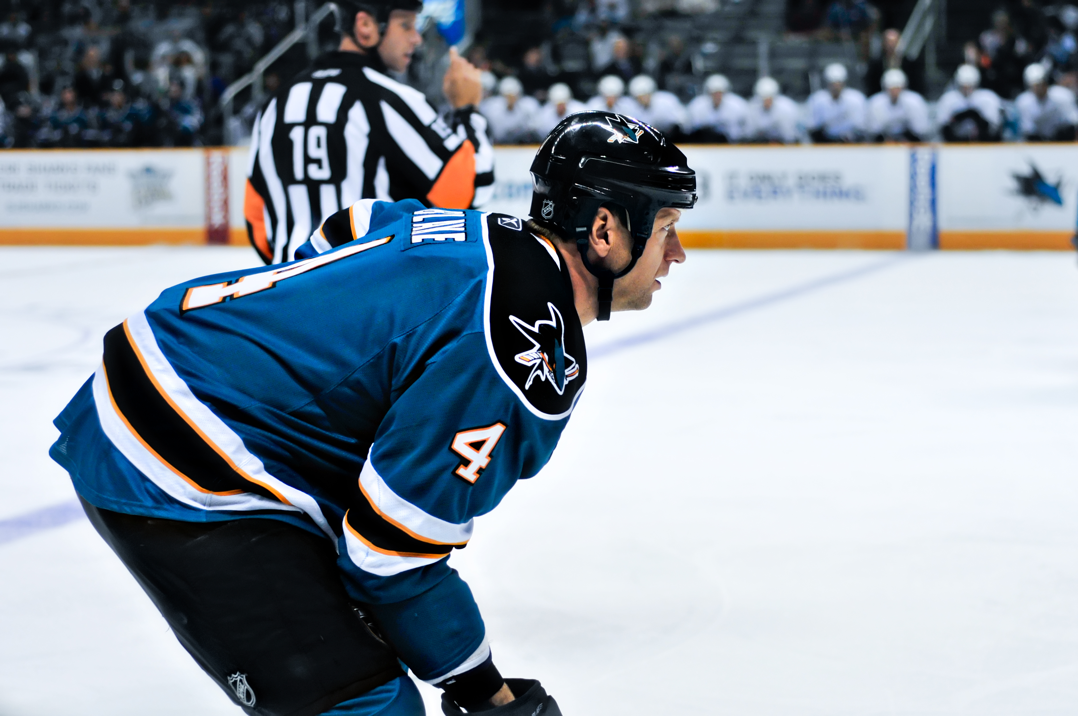 Rob Blake of San Jose Sharks